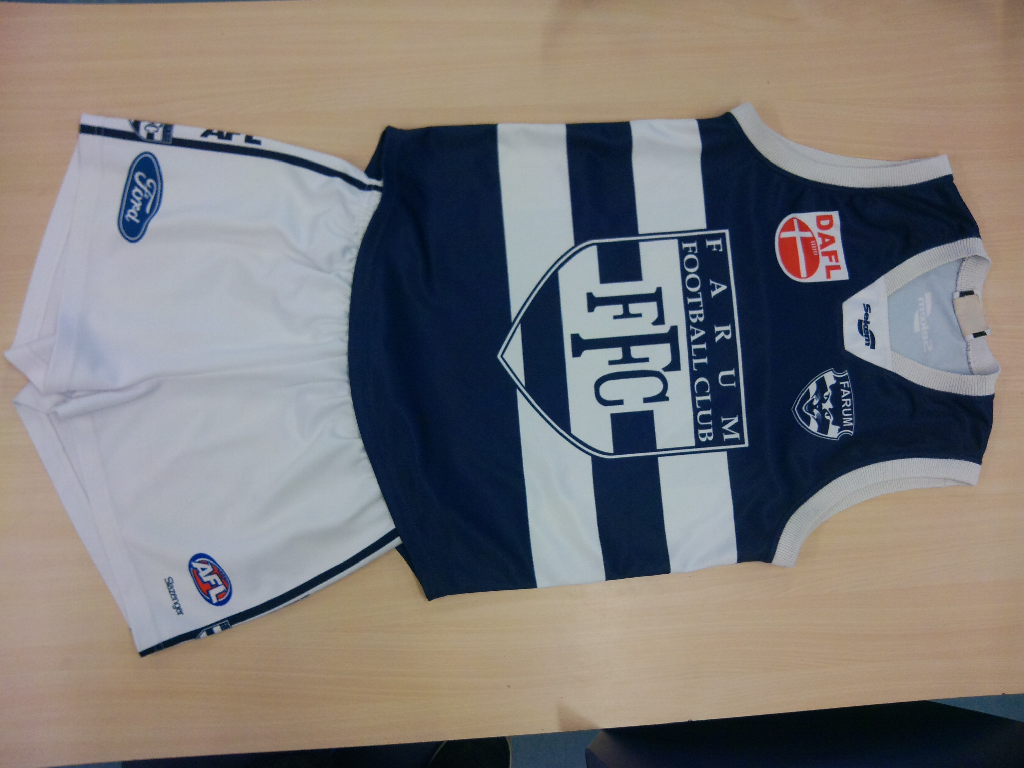 The current (2010-present) kit of the Farum Cats Australsk Fodboldklub